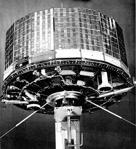 TIROS 4 (Television and InfraRed Observation Satellite) was a spin-stabilized meteorological spacecraft designed to test experimental television techniques and infrared equipment. The satellite was in the form of an 18-sided right prism, 107 cm in diameter and 56 cm high. The top and sides of the spacecraft were covered with approximately 9000 1- by 2-cm silicon solar cells. It was equipped with two independent television camera subsystems for taking cloudcover pictures and three radiometers (two-channel low-resolution, omnidirectional, and five-channel scanning) for measuring radiation from the earth and its atmosphere.